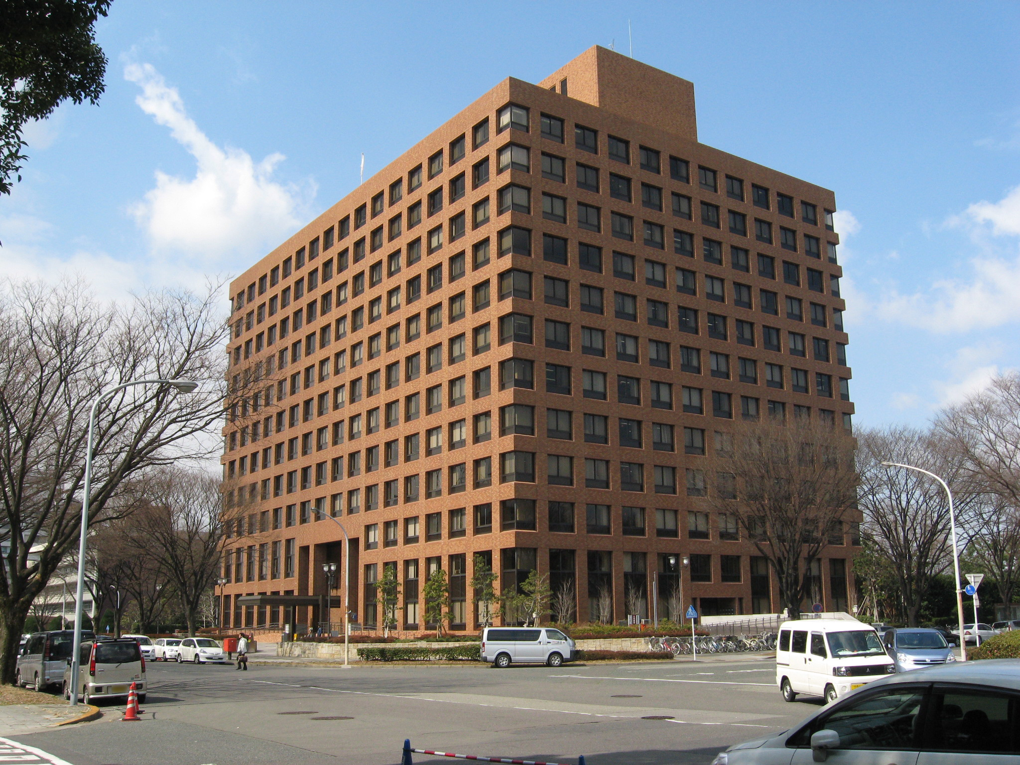 Nagoya Courthouse